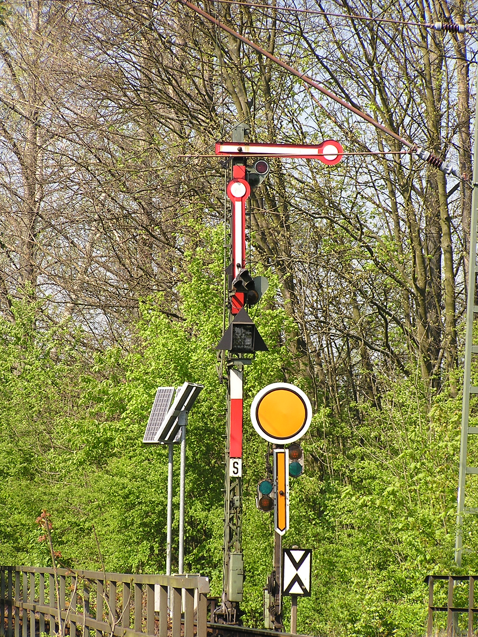 Semaphore type signals controled by the electric signal box Friedberg at the line Friedberg-Friedrichsdorf. The lamps equipped with LEDs got their energy from two solar cells. They were replaced by modern light signals in October 2015.